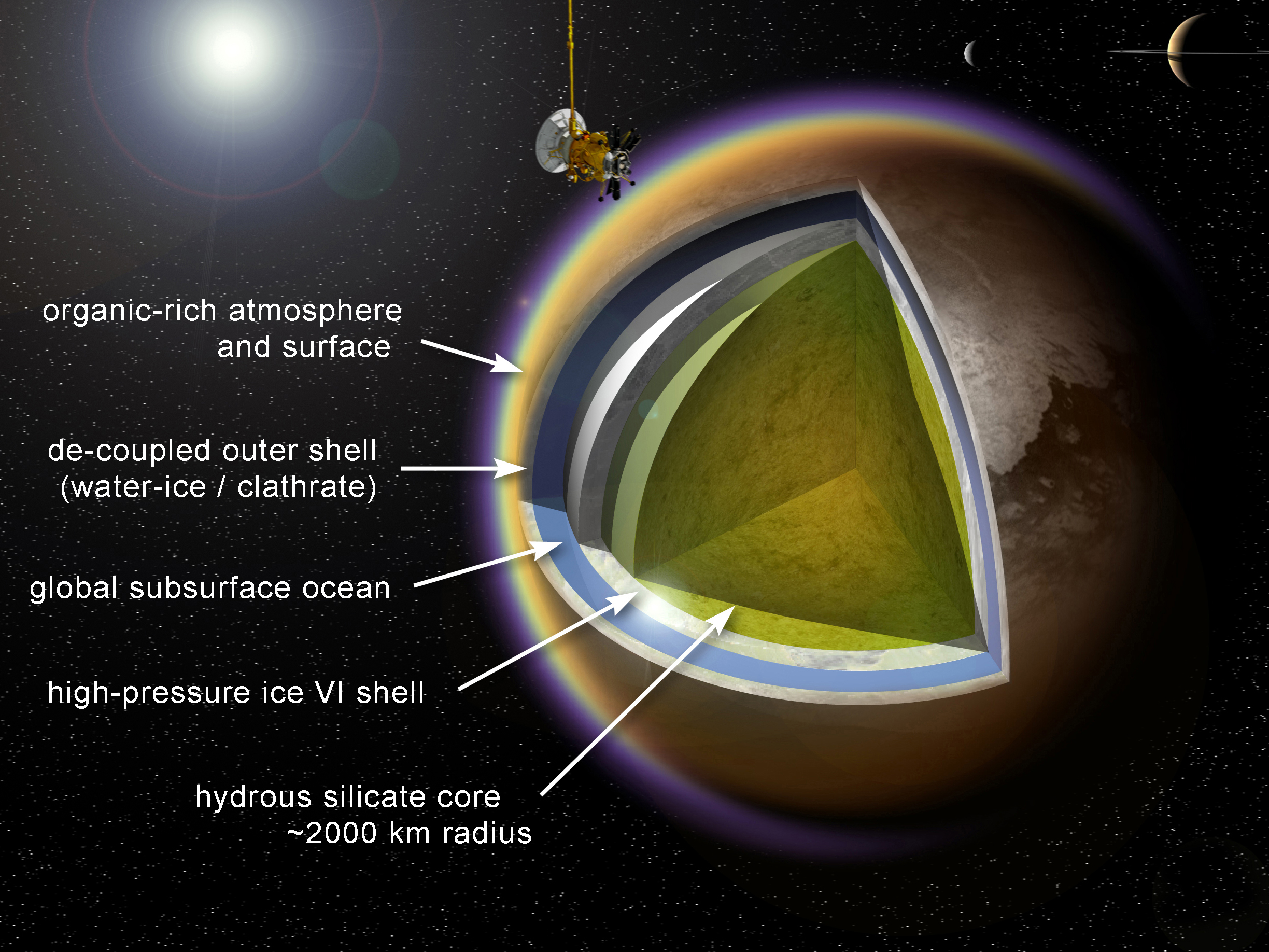 Inner layers of Titan, the largest moon of Saturn. This artist's concept shows a possible model of Titan's internal structure that incorporates data from NASA's Cassini spacecraft. In this model, Titan is fully differentiated, which means its denser core has separated from its outer parts. This model proposes a core consisting entirely of water-bearing rocks and a subsurface ocean of liquid water. The mantle, in this image, is made of icy layers, one that is a layer of high-pressure ice closer to the core and an outer ice shell on top of the subsurface ocean. A model of Cassini is shown making a targeted flyby over Titan's cloudtops, with Saturn and Enceladus appearing at upper right. The model, developed by Dominic Fortes of University College London, England, incorporates data from Cassini's radio science experiment. The Cassini–Huygens mission is a cooperative project of NASA, the European Space Agency and the Italian Space Agency. The Jet Propulsion Laboratory, a division of the California Institute of Technology in Pasadena, manages the Cassini–Huygens mission for NASA's Science Mission Directorate, Washington, D.C. The Cassini orbiter was designed, developed and assembled at JPL. The radio science team is based at Wellesley College, Wellesley, Mass.